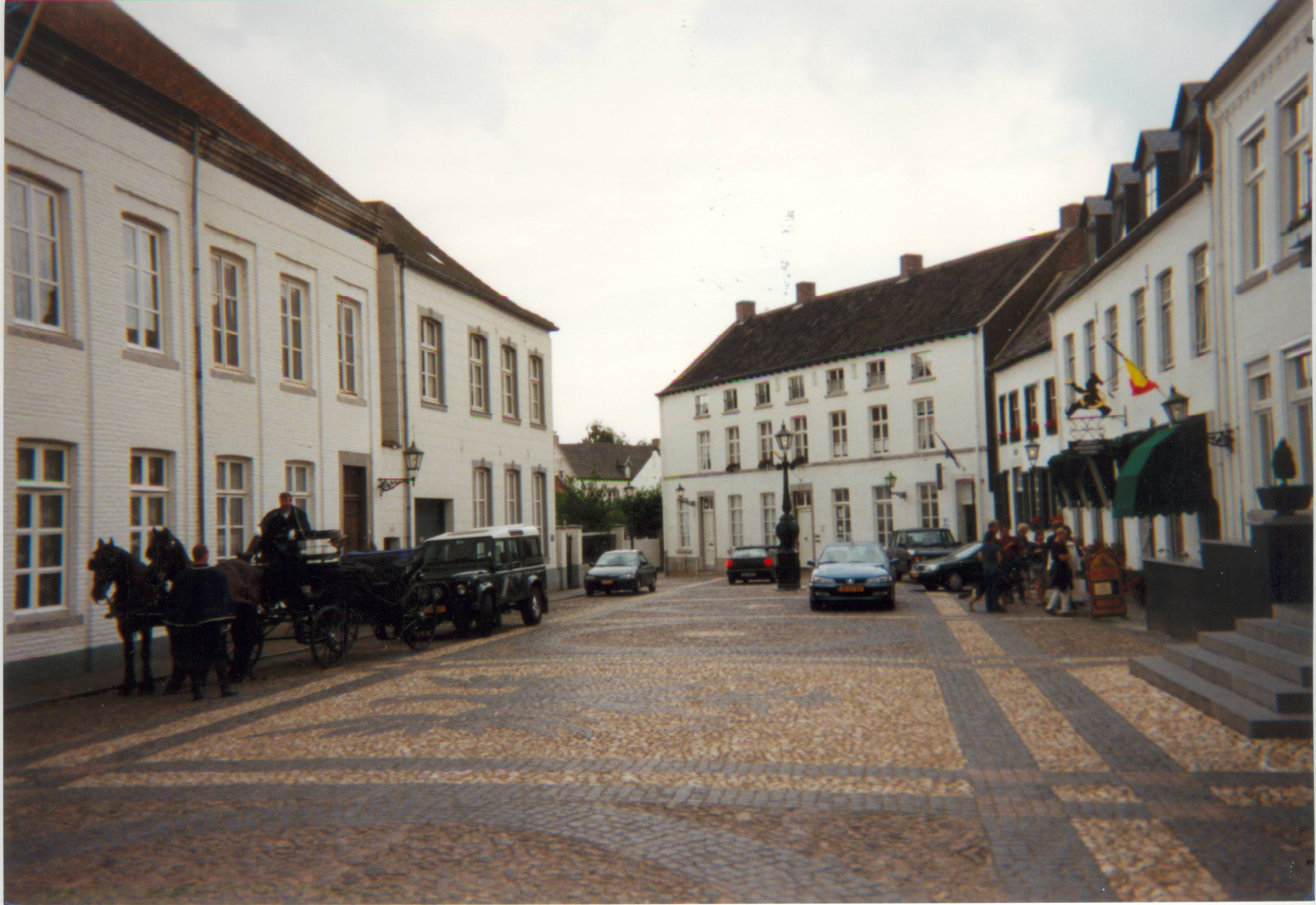 Thorn, the village with the white buildings in The Netherlands